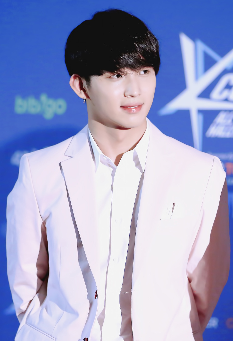 Im Hyunsik at KCON New York Red Carpet